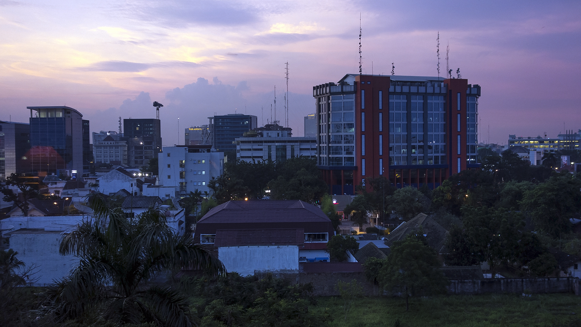 View from a room window in Tiara Hotel, Medan.